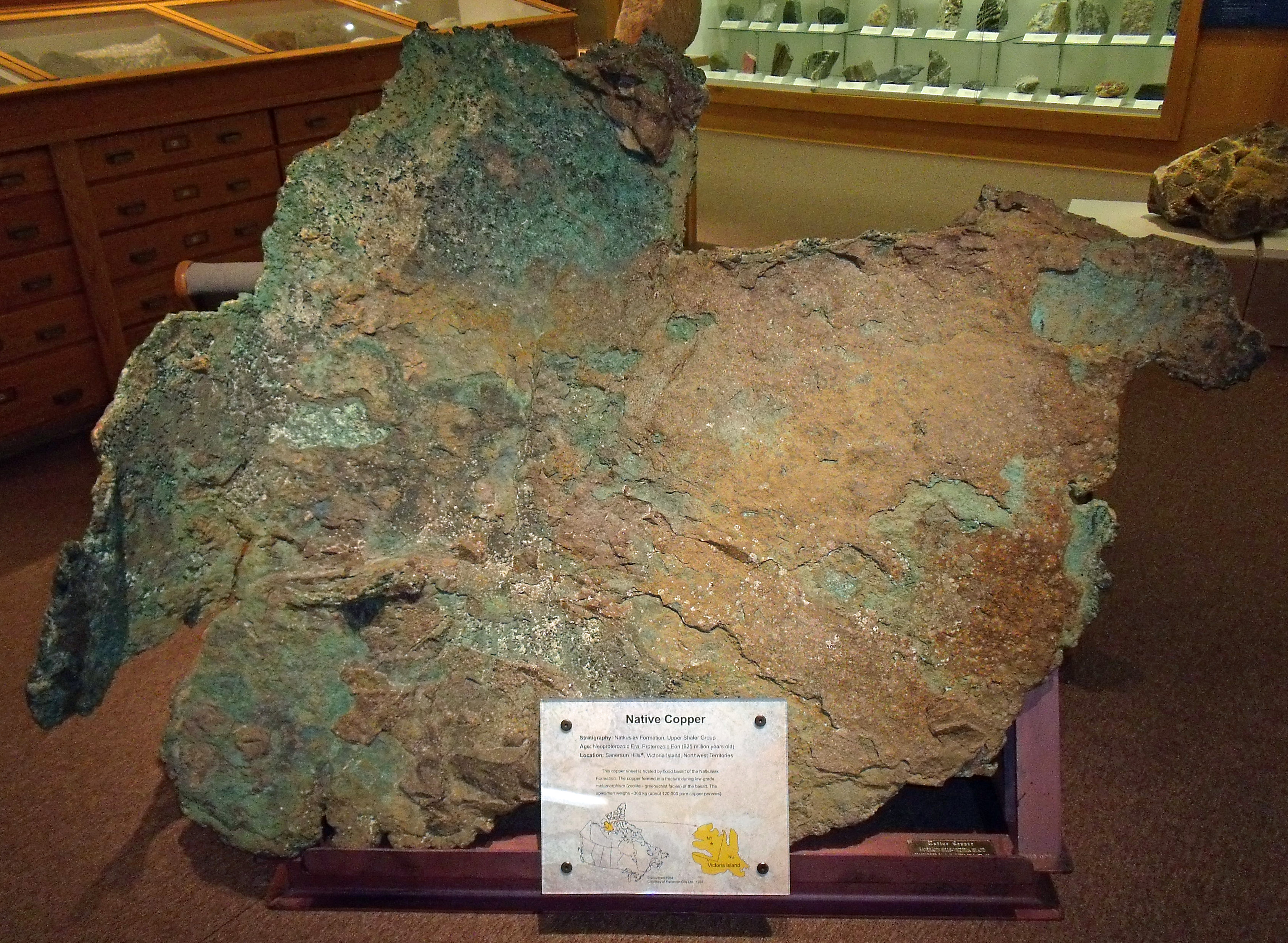 126,000 pennies can be made from this 360 kg plate of native copper from Victoria Island, Northwest Territories, arctic Canada. The copper filled a crack in Proterozoic volcanic basalt. Specimen is now in the mineralogy gallery, University of Alberta, Edmonton, Canada. Geotagging shows approximate original location, in the Saneraum Hills, NWT. Note: not in Nunavut!